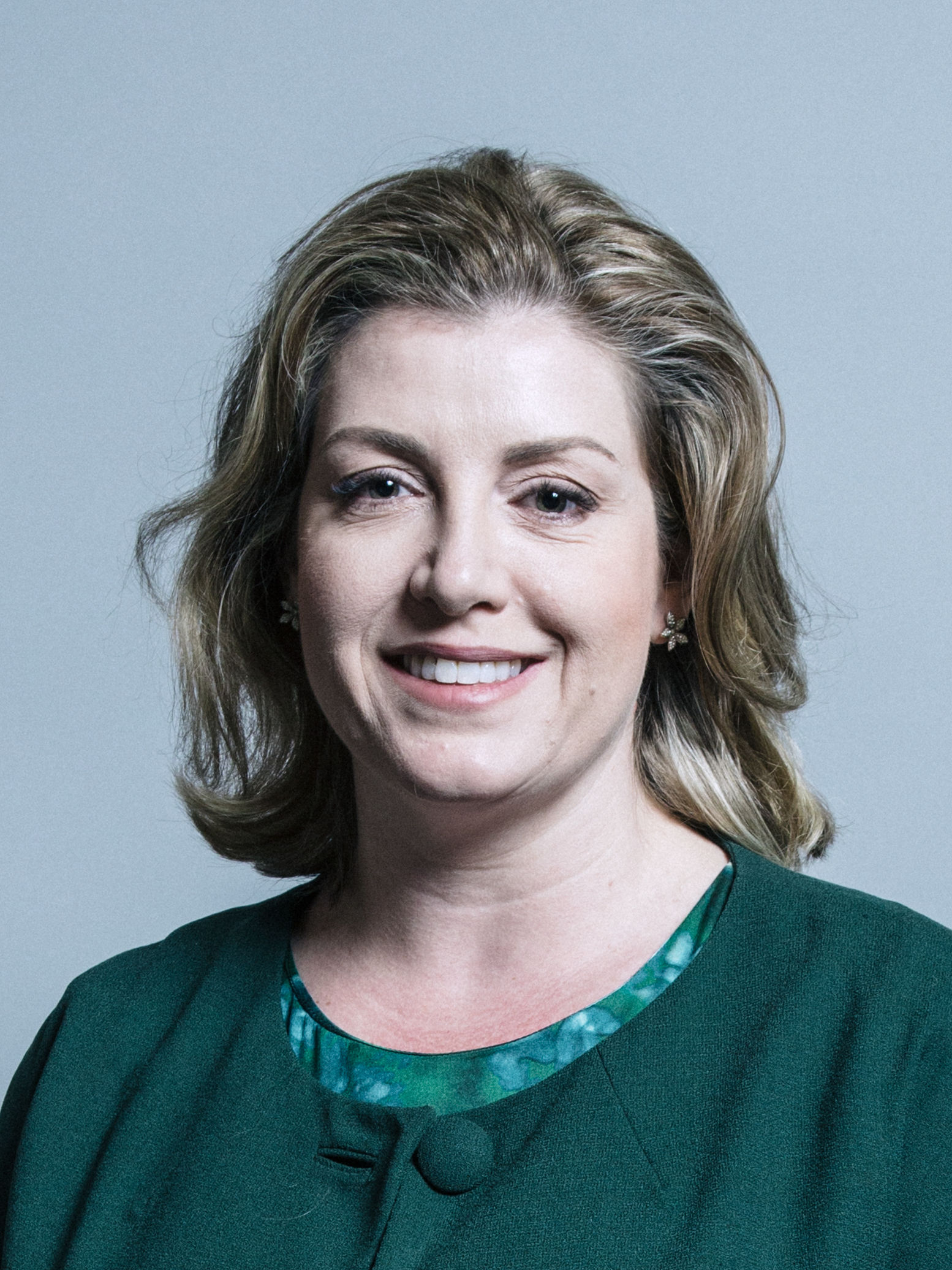 Official portrait of Penny Mordaunt